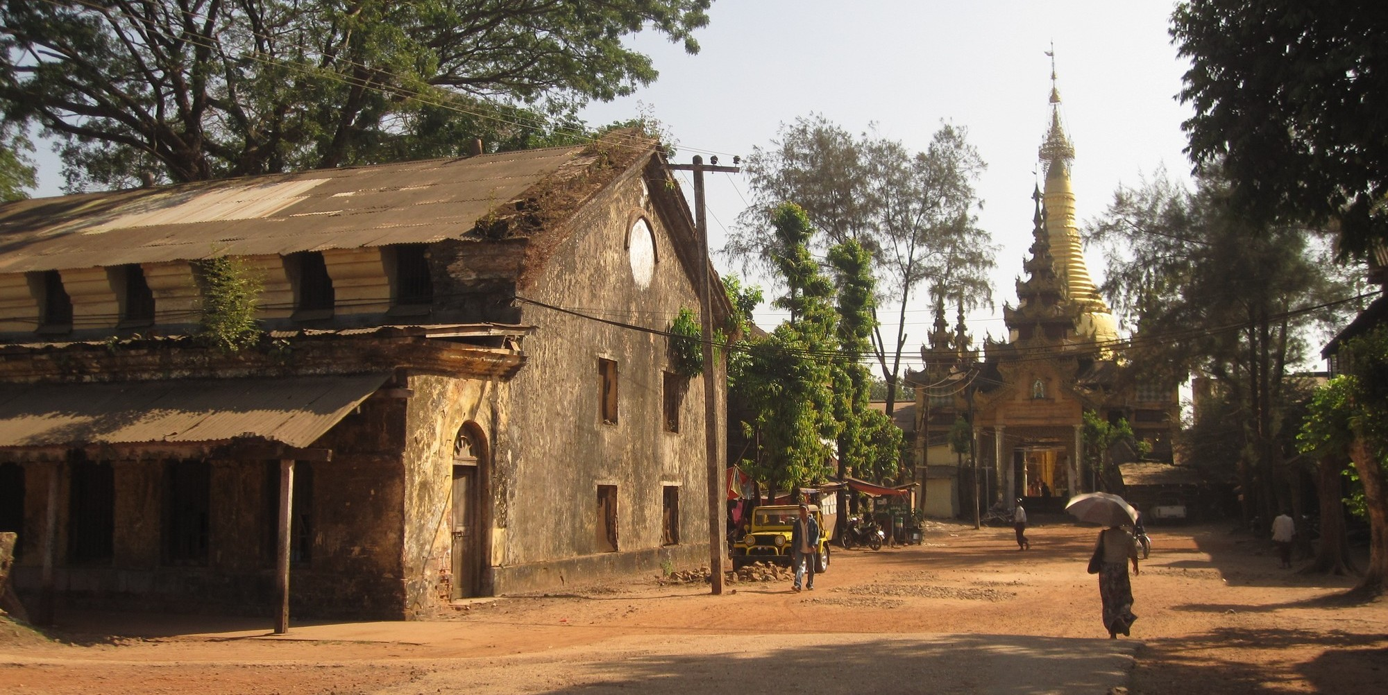 Pathein and Irrawaddy Delta scenery